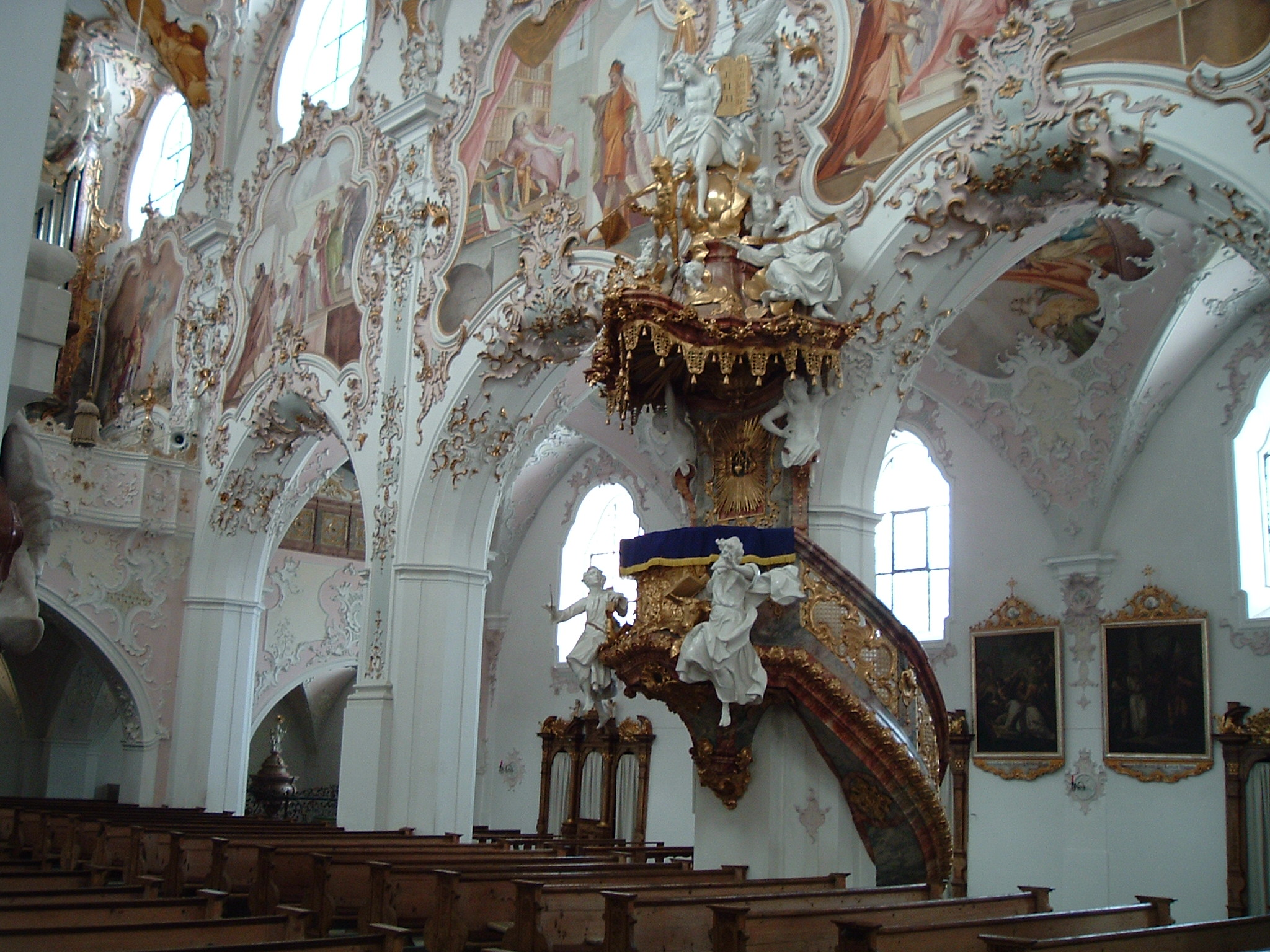 I take the photo myself in april 2004